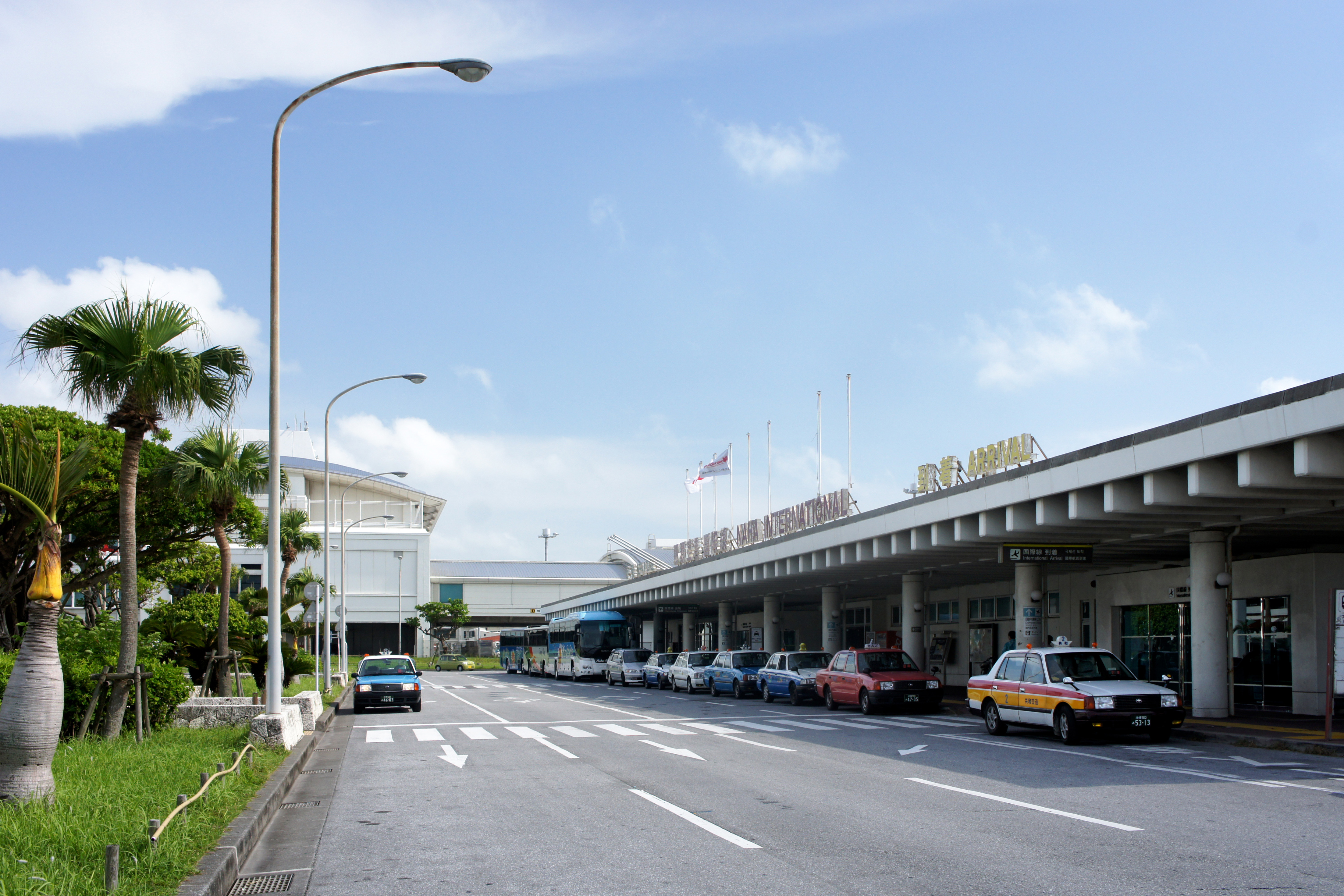 Naha Airport, Naha, Okinawa prefecture, Japan